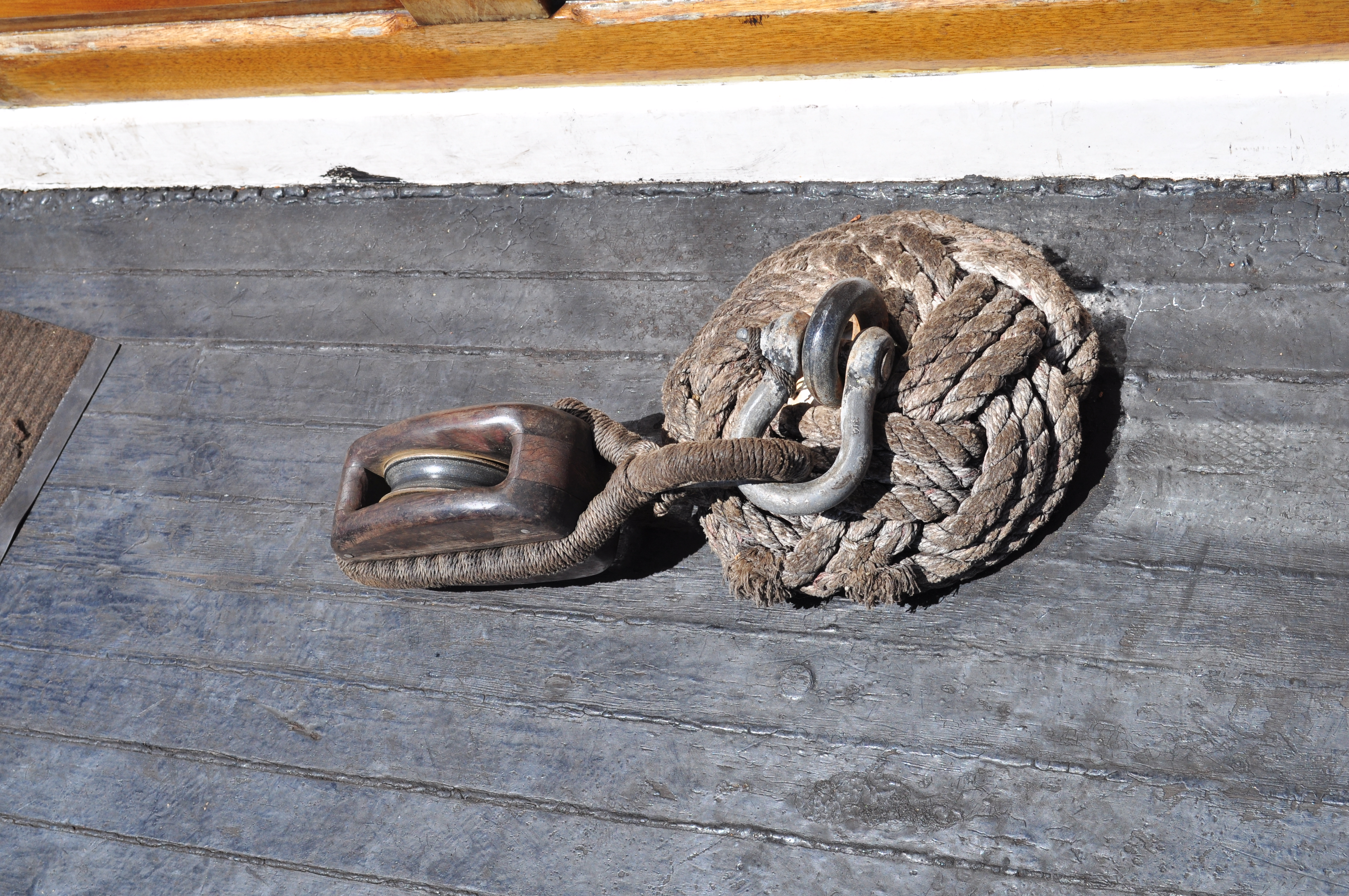 Carrick mat at base of a shackled block (pulley) aboard the Adventuress. (Shown from a slightly different angle in File:Adventuress - rope and rigging 12.jpg). Photographed while the Adventuress was at Shilshole Bay Marina, Ballard, Seattle, Washington, U.S. for Marina Day 2016. Adventuress is a National Historic Landmark.